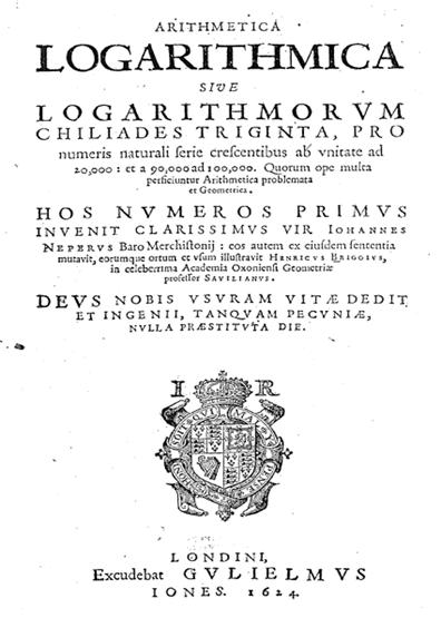 Front page of Arithmetica Logaritmica by Henry Briggs, 1624